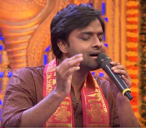 hema chandra singins in SVBC TTD